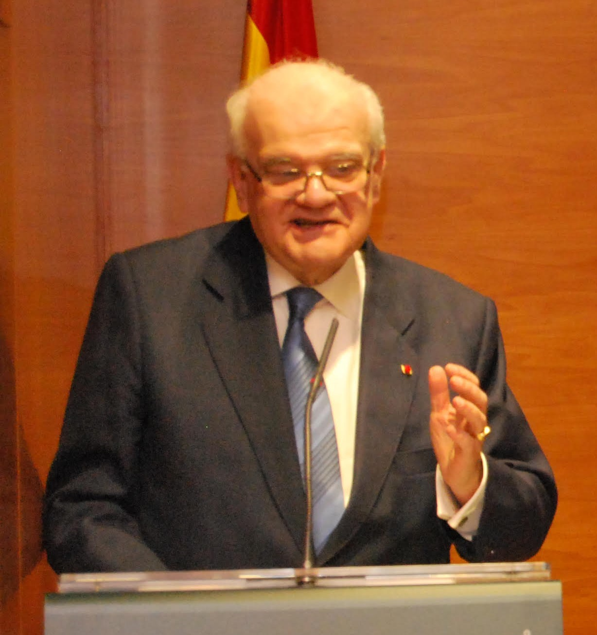 Book presentation